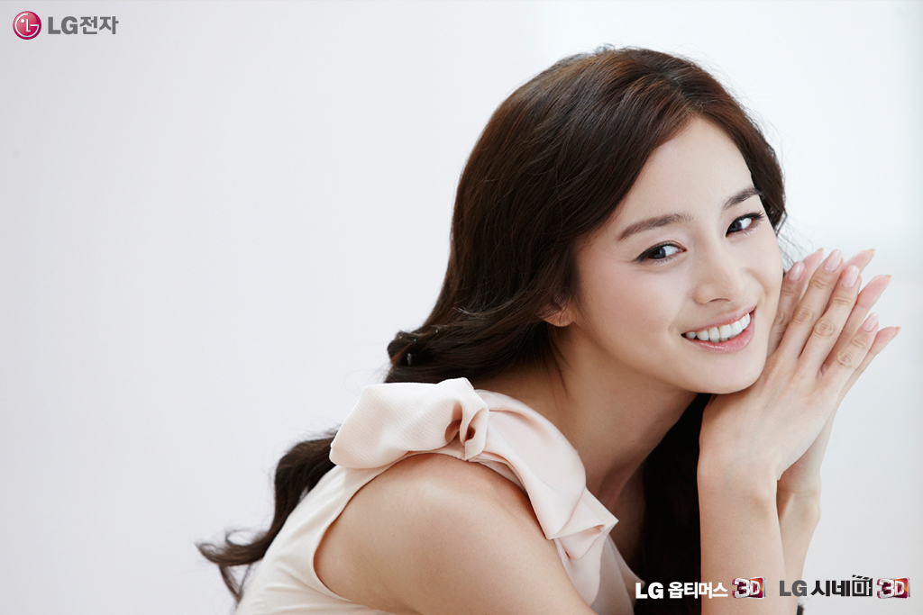 Korean Actresses Kim Tae-hee at LG Optimus 3D & LG Cinema TV advertisement photograph.